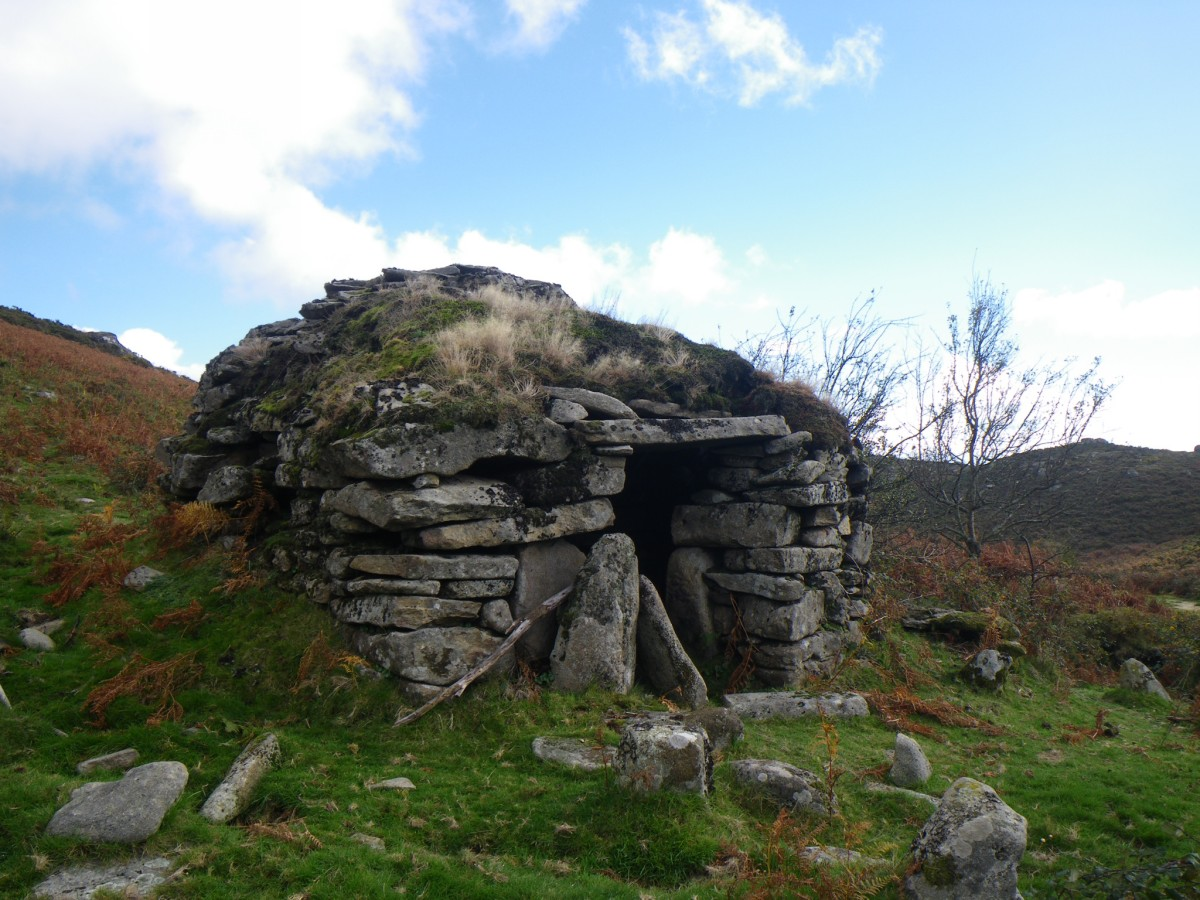 Chozo from Barcia, Covelo Council (Galicia, Spain)